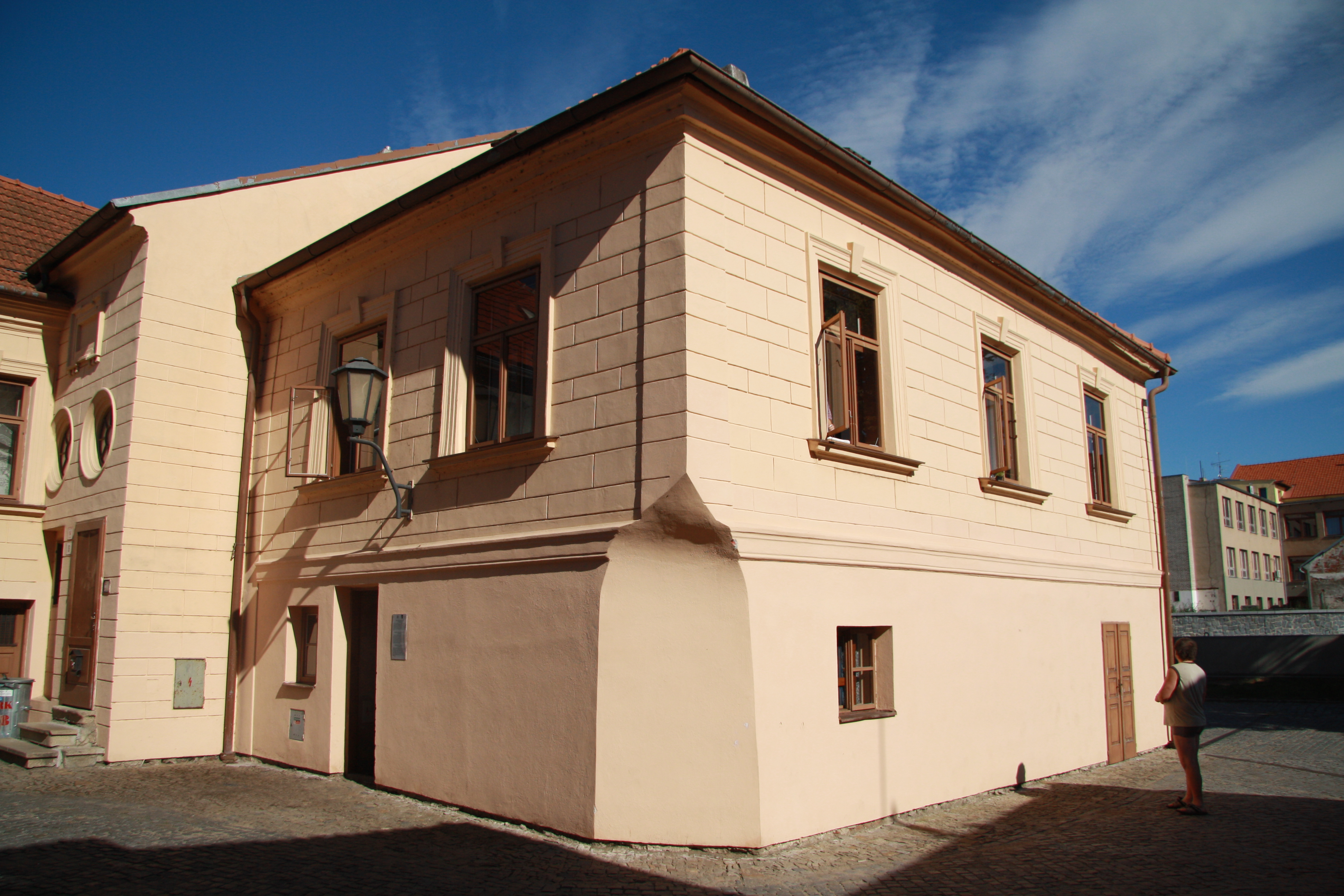 Building Leopolda Pokorného 14/8, Třebíč, Třebíč District.